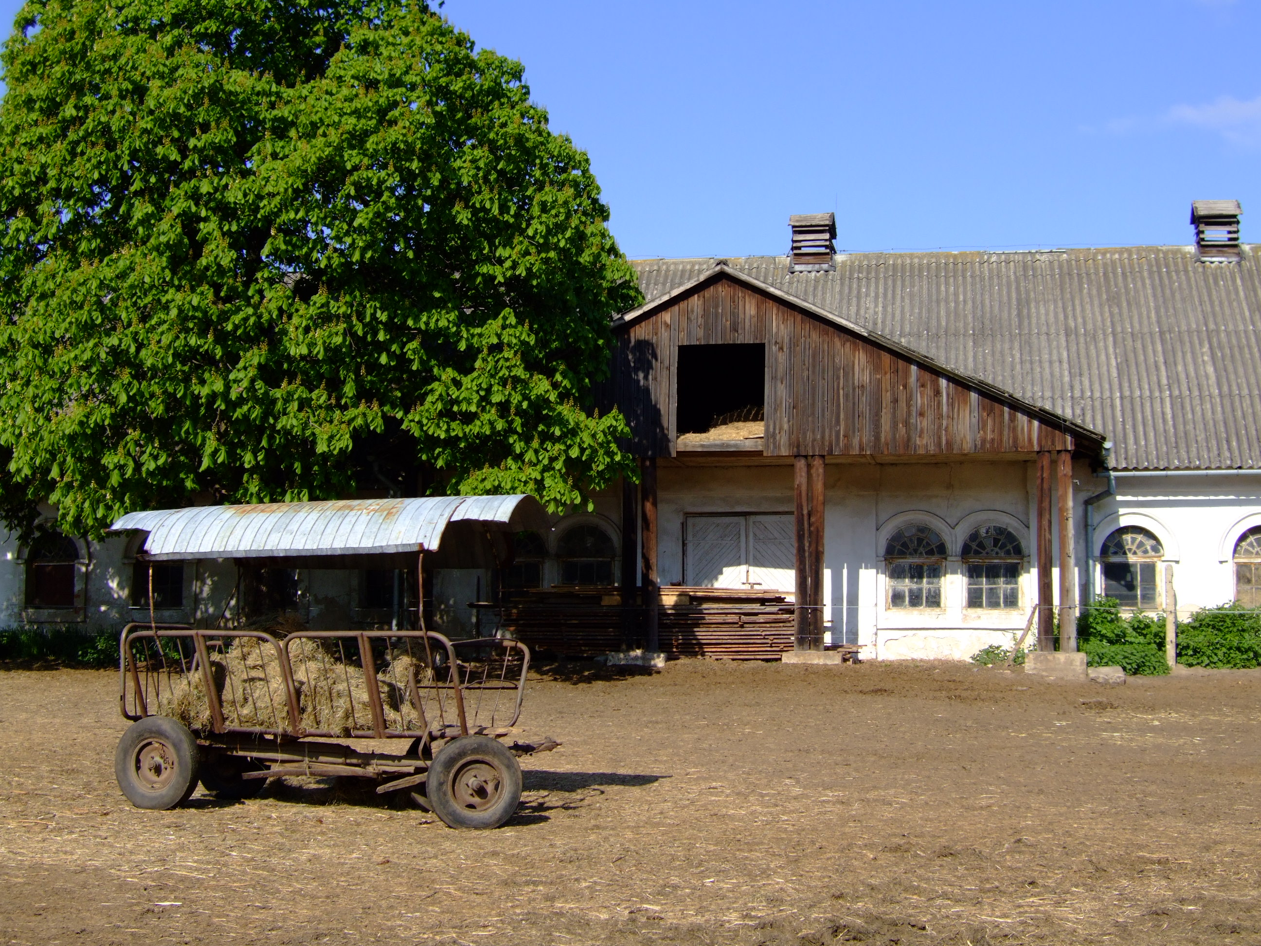 Manor buildings, remainings of PGR, Bodzechów, Poland, 2007 yr. Aparat/Camera: Fuji FinePix E900